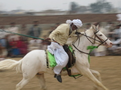 Tent pegging